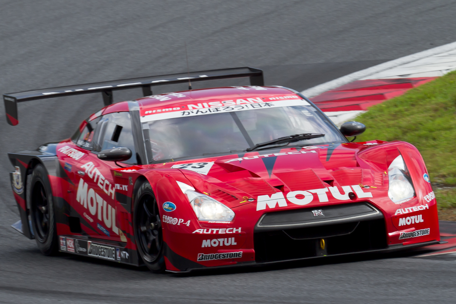 Super GT 2011 Rd.6 Fuji GT 250km: Benoît Tréluyer (Nismo) driving the Nissan GT-R GT500.